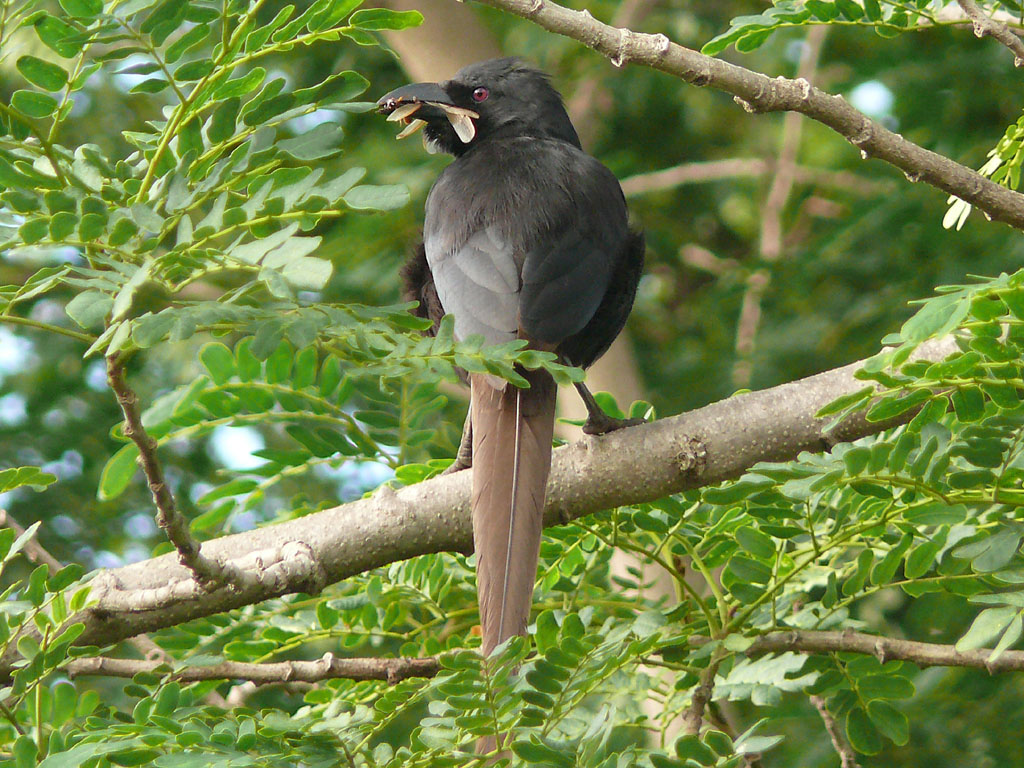 Piapiac (Ptilostomus afer) photographed in Kédougou, Senegal